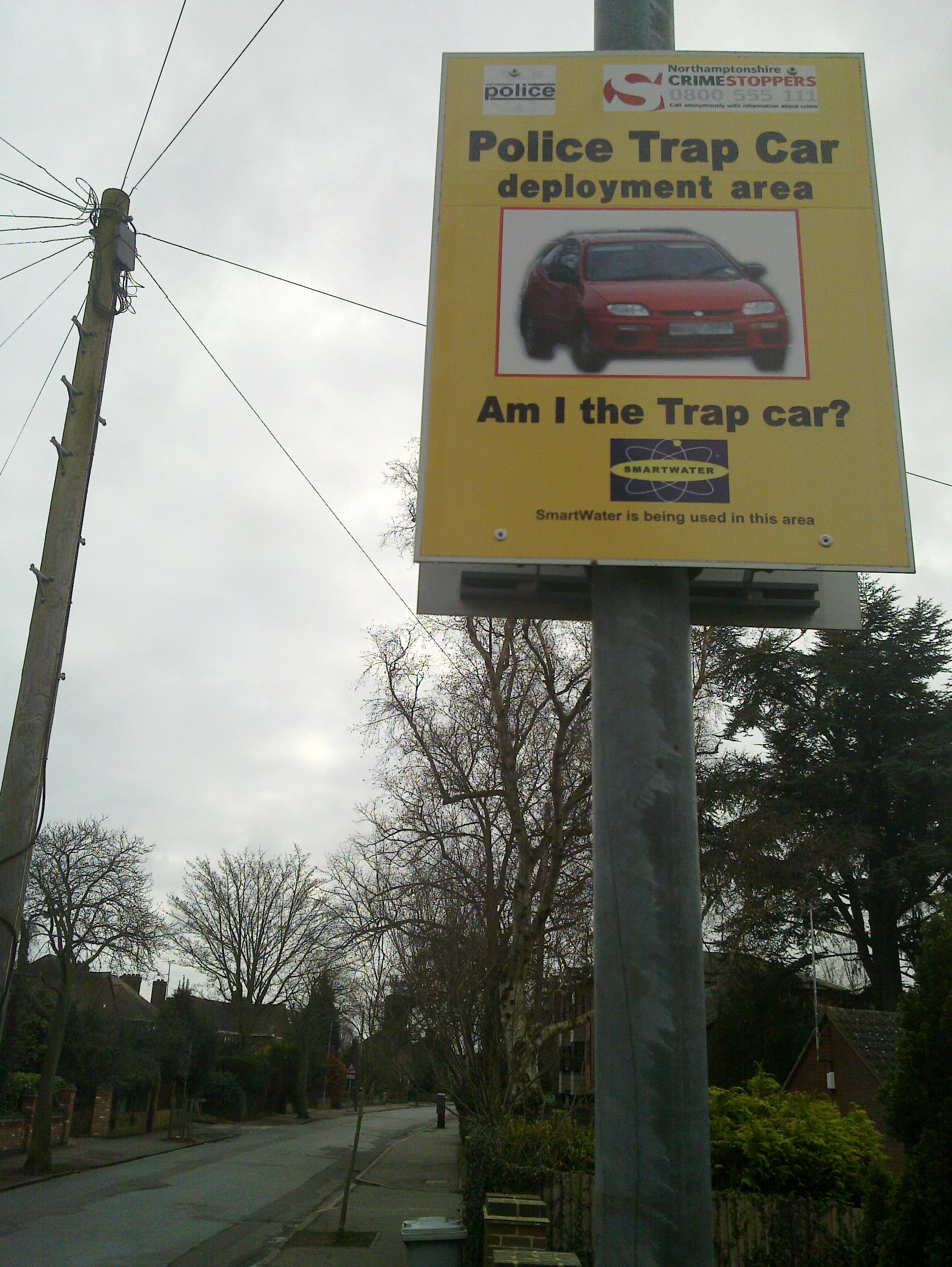 I've seen some funny Canadian bait car vids